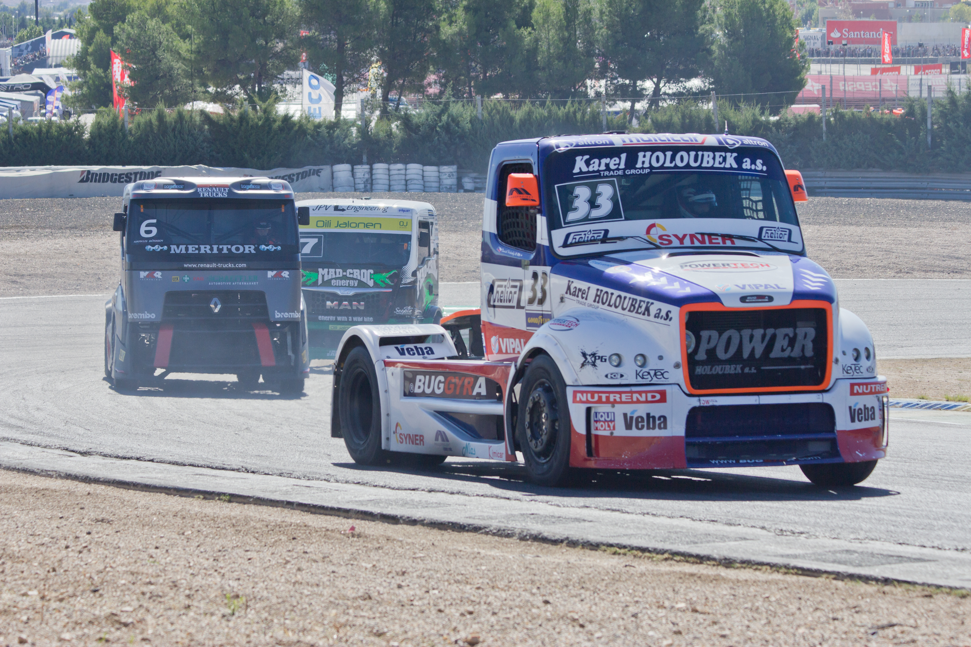 Truck pilot David Vršecký at the Spain Truck GP 2013.